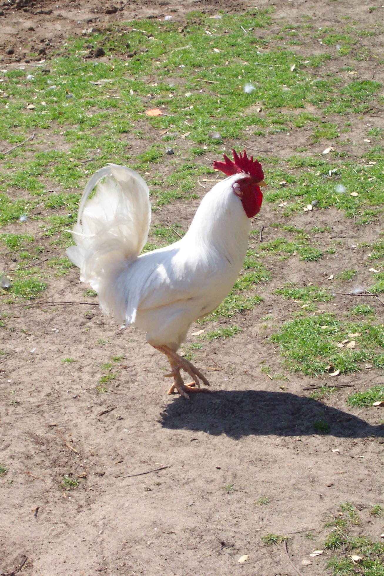 Rooster